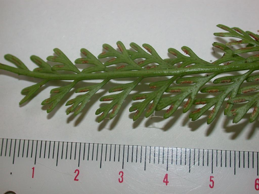 Asplenium prolongatum(Aspleniaceae) Japanese name:Hinokisida Date;2006,11;Susami town, Wakayama prefecture, Japan Author;Keisotyo